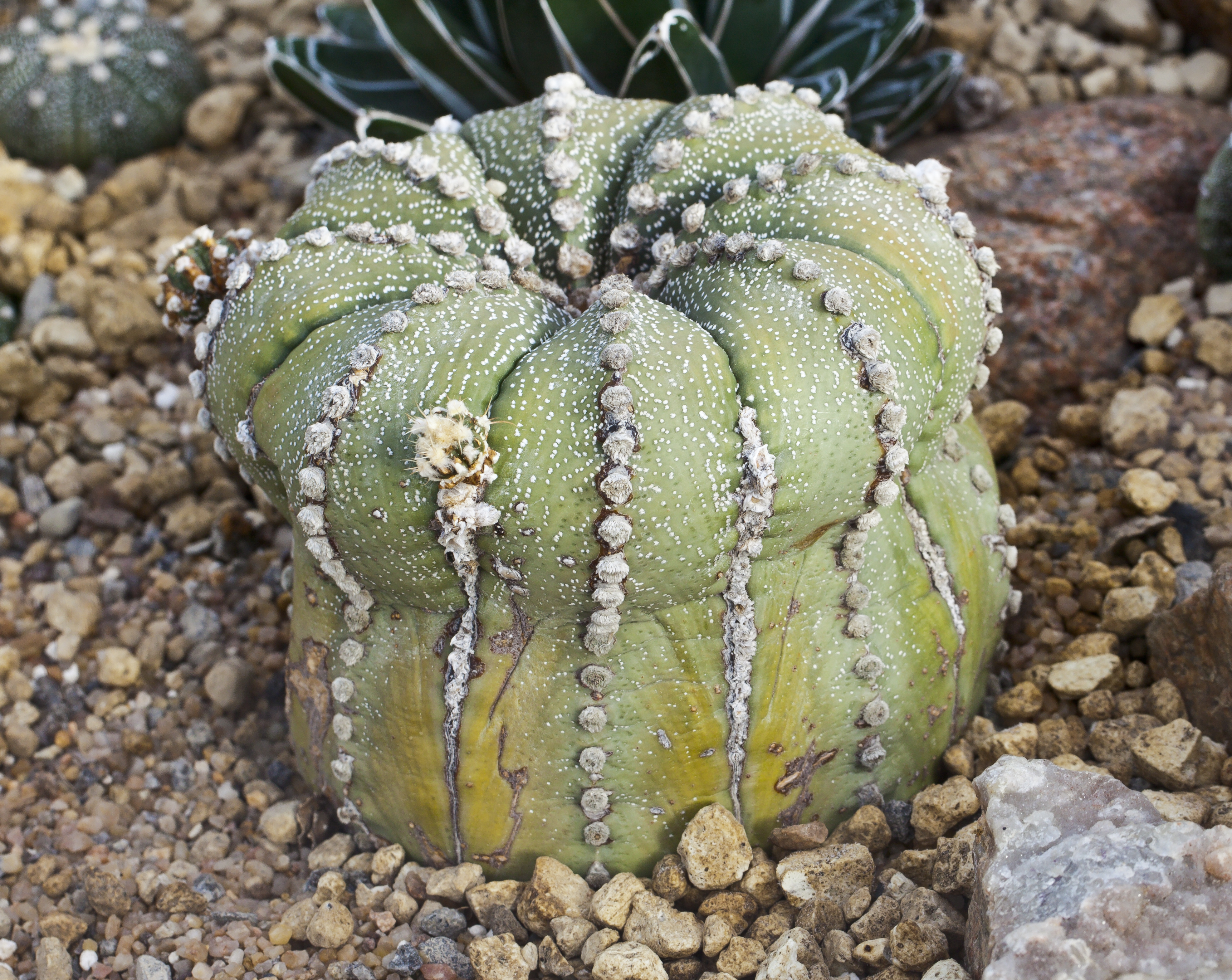 Astrophytum asterias, Munich Botanical Garden, Germany